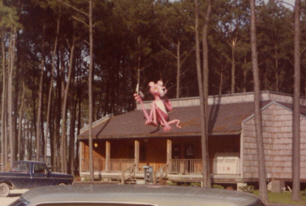 Highway 443, St. Tammany Parish, Louisiana. Building in mobile home park with cartoon figure advertising mascot on roof.